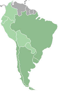 Shows teams of en:1974 FIFA World Cup qualification/South America on a world map